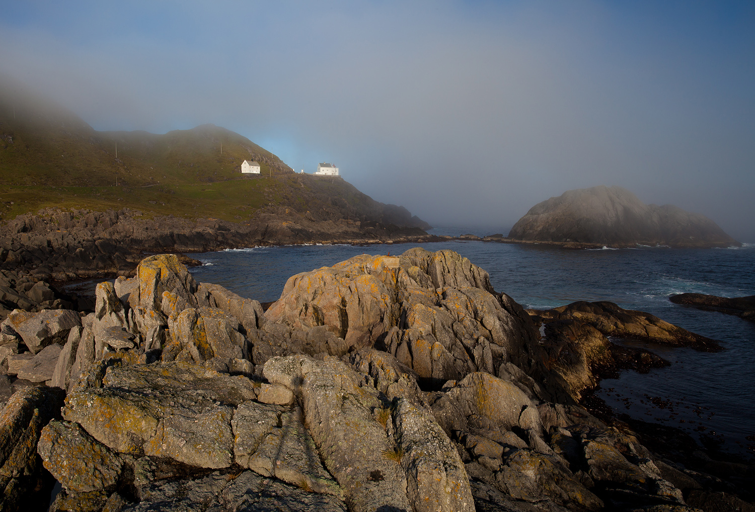 Kråkenes Lighthouse at Stad